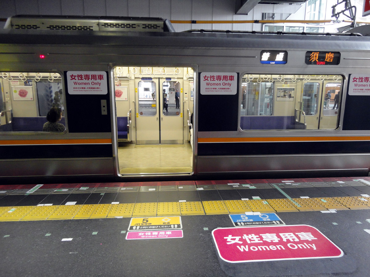 Boarding point for the women-only car on a JR West station platform